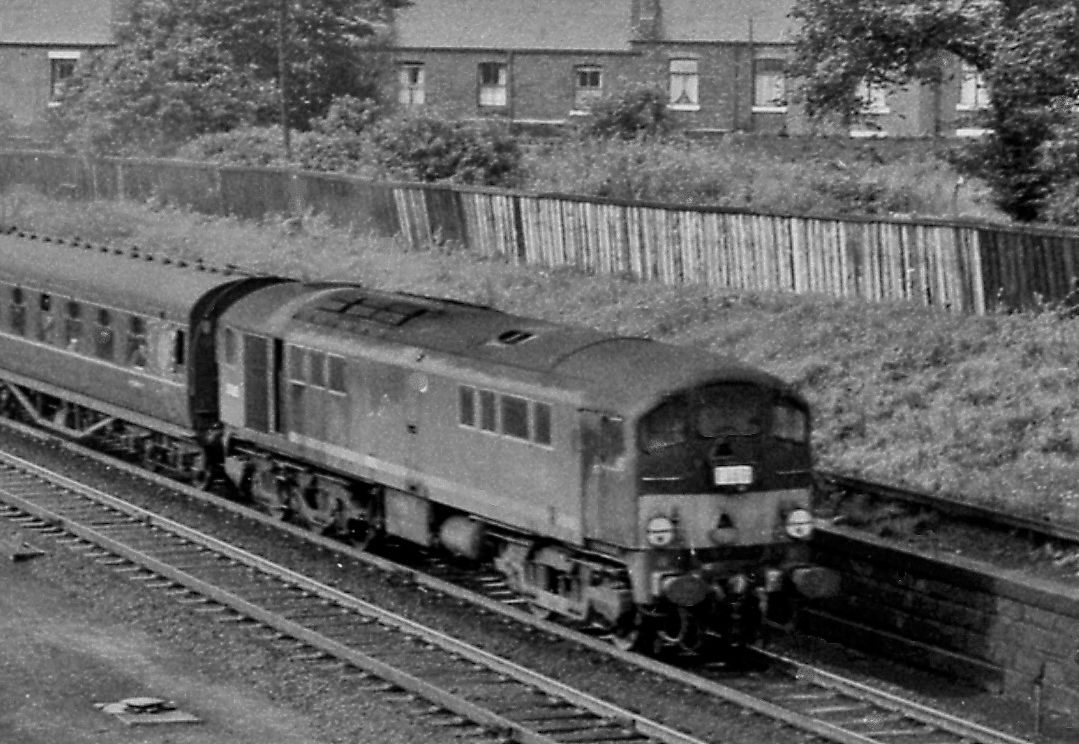 Diesel-hauled Up express approaching Leyland. View northward, towards Preston etc., West Coast Main Line. Dieselisation is creeping in - albeit with an unsatisfactory Type 2 1,200hp Metro.-Vickers Co-Bo, No. D5705. Its train is the Summer Saturdays 13.03 Workington - Manchester Victoria.